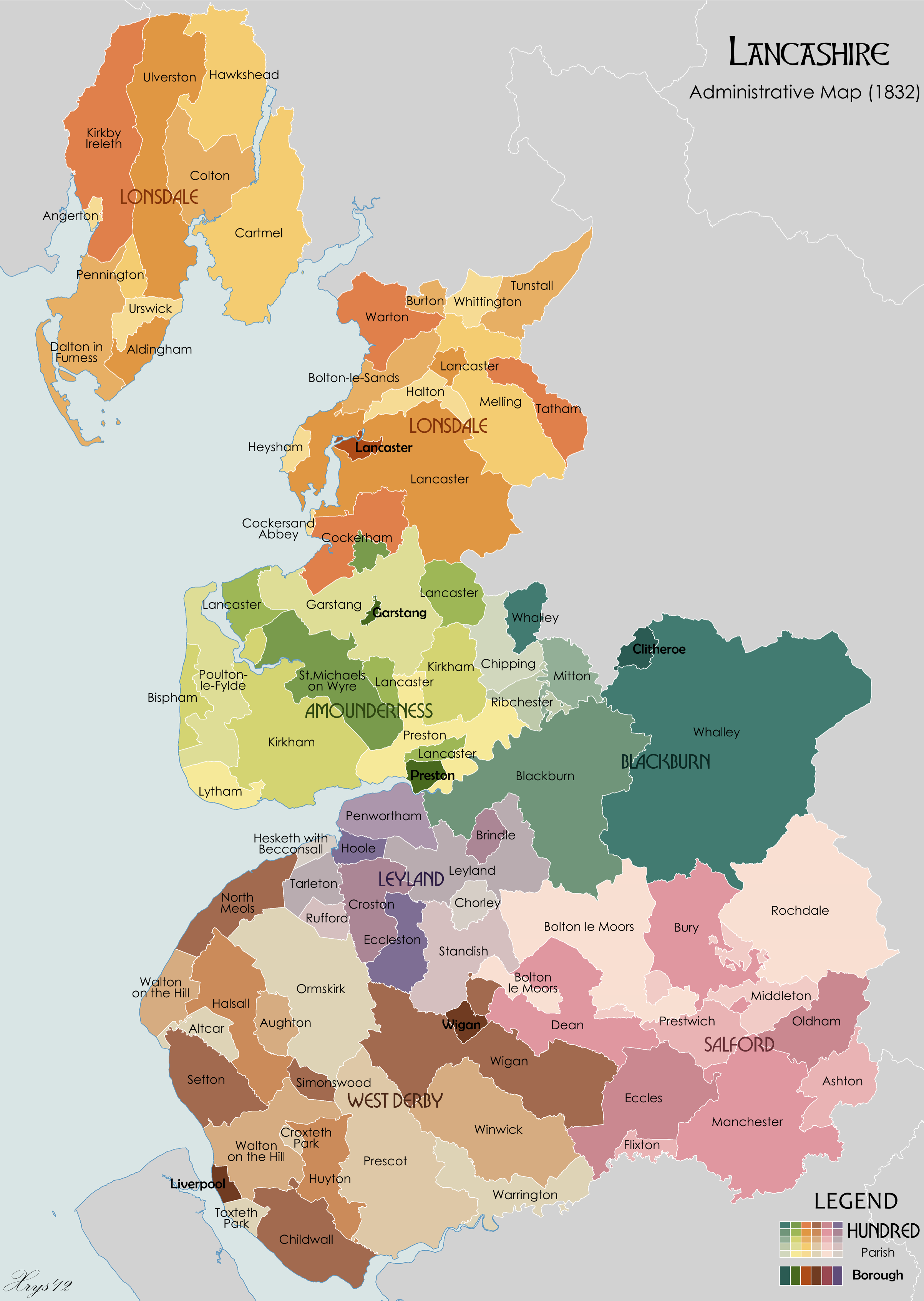 Administrative map of the ancient county of Lancashire in 1832. Showing Hundreds, Parishes and Boroughs. Source data on parish boundaries - Kain, R.J.P., and Oliver, R.R. (2001) "Historic parishes of England and Wales: Electronic Map - Gazetteer - Metadata", Colchester: History Data Service. ISBN 0 9540032 0 9. Source data for Boroughs: H.M.S.O. Boundary Commission Report 1832 (courtesy of